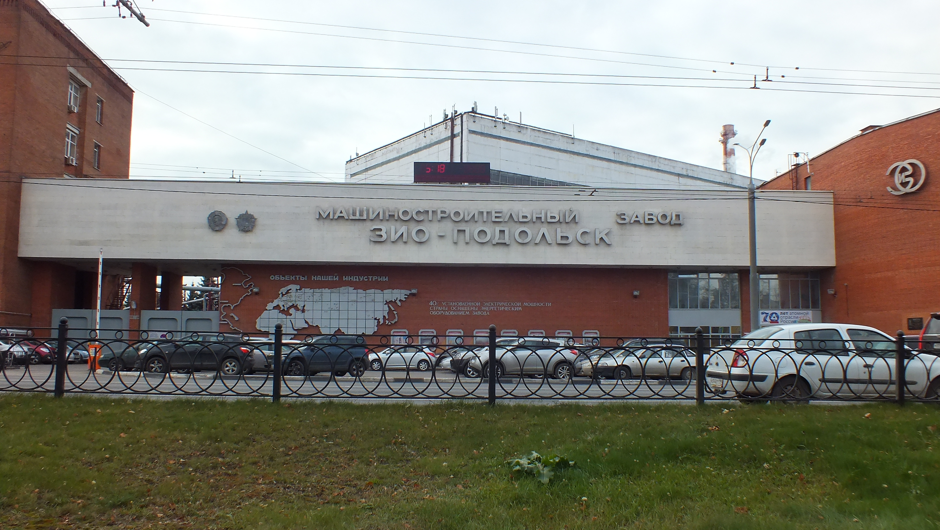 "ZiO-Podolsk" plant in Podolsk, Moscow Oblast.